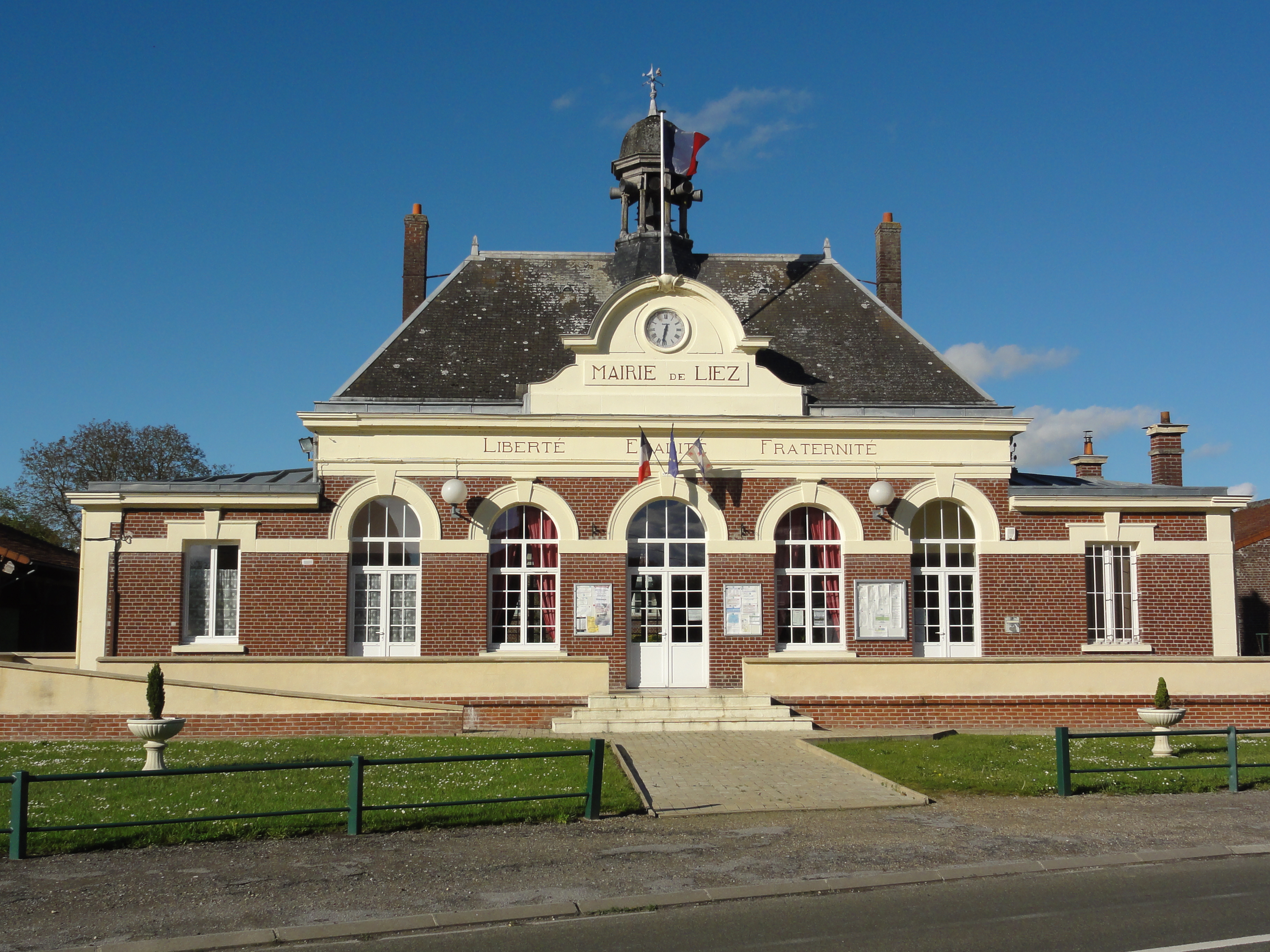 Liez (Aisne) mairie